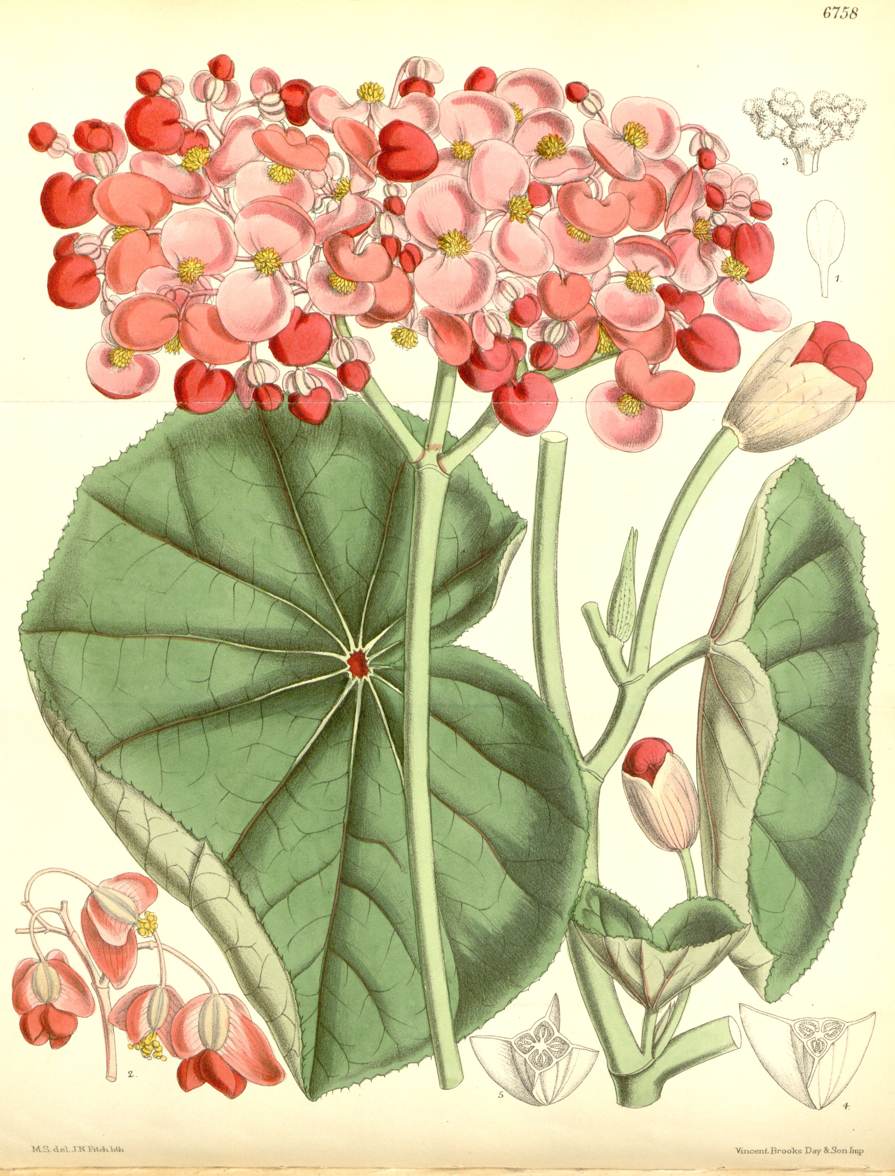 Begonia lyncheana Hook.f. -- Bot. Mag. 110: t. 6758. 1884